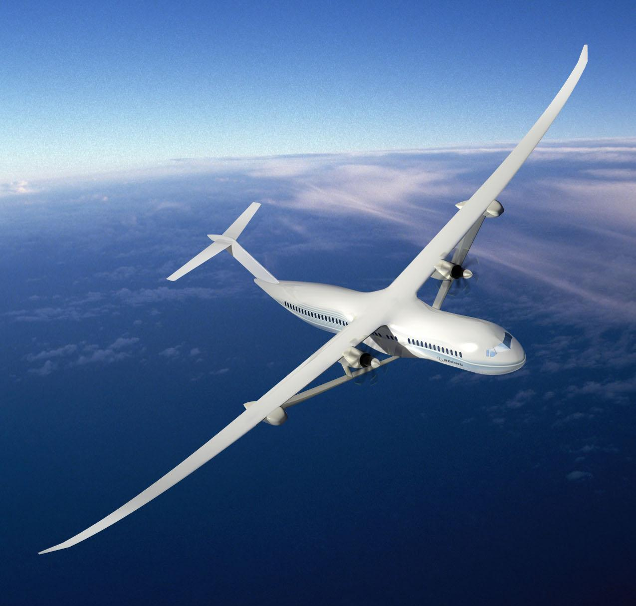 The Subsonic Ultra Green Aircraft Research, or SUGAR, Volt future aircraft design comes from the research team led by The Boeing Company. The Volt is a twin-engine concept with a hybrid propulsion system that combines gas turbine and battery technology, a tube-shaped body and a truss-braced wing mounted to the top of the aircraft. This aircraft is designed to fly at Mach 0.79 carrying 154 passengers 3,500 nautical miles. The SUGAR Volt is among the designs presented in April 2010 to the NASA Aeronautics Research Mission Directorate for its NASA Research Announcement-funded studies into advanced aircraft that could enter service in the 2030-2035 timeframe.